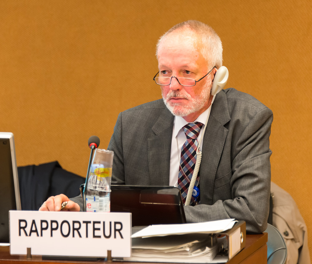 The Board elected H.E. Mr. Thomas Fitschen (Germany) to serve as Rapporteur. Trade and Development Board, 60th session (16-27 September 2013)